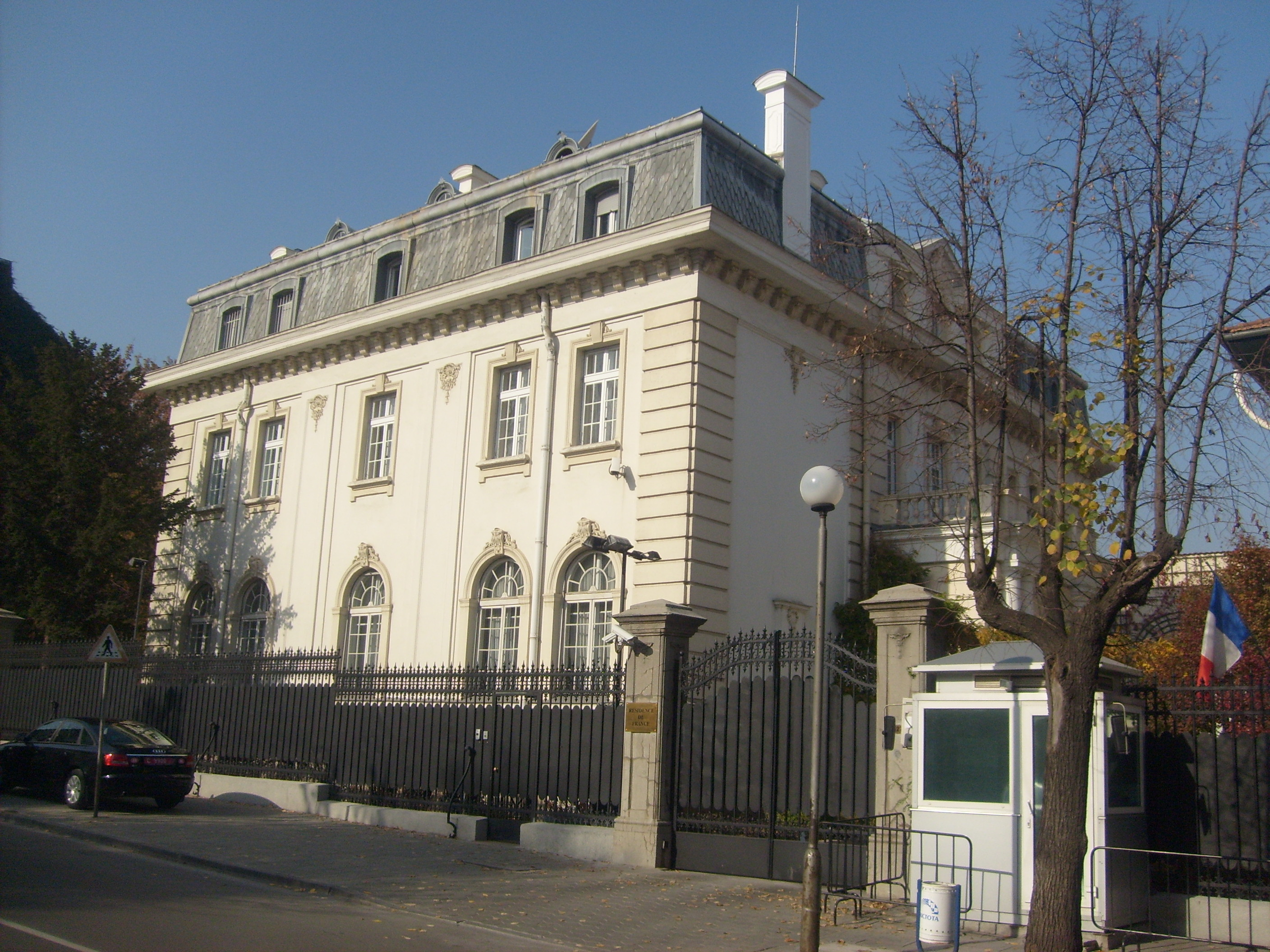 Sofia, Bulgaria